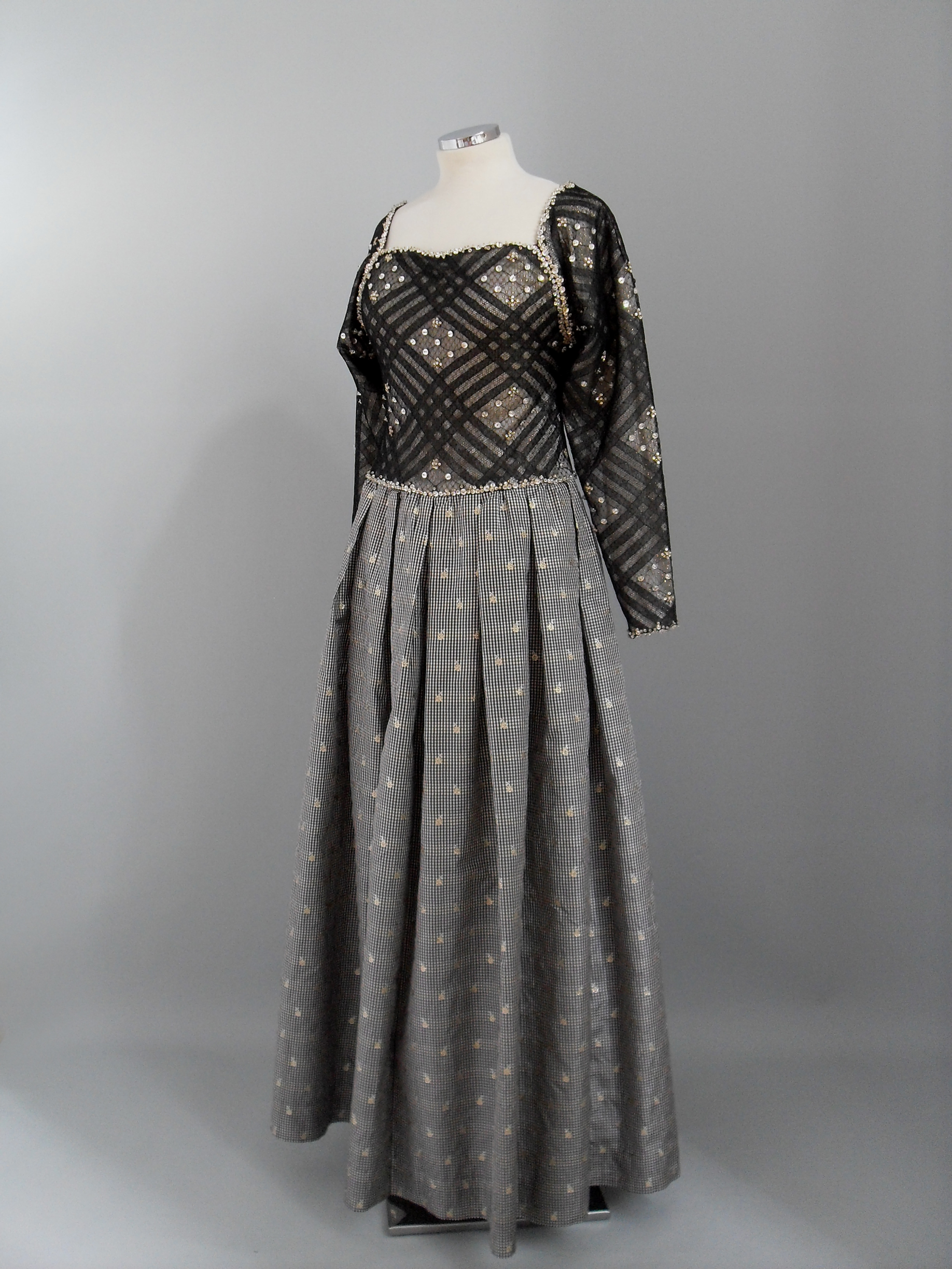 Black, grey and white evening gown by James Galanos. America, 1980.